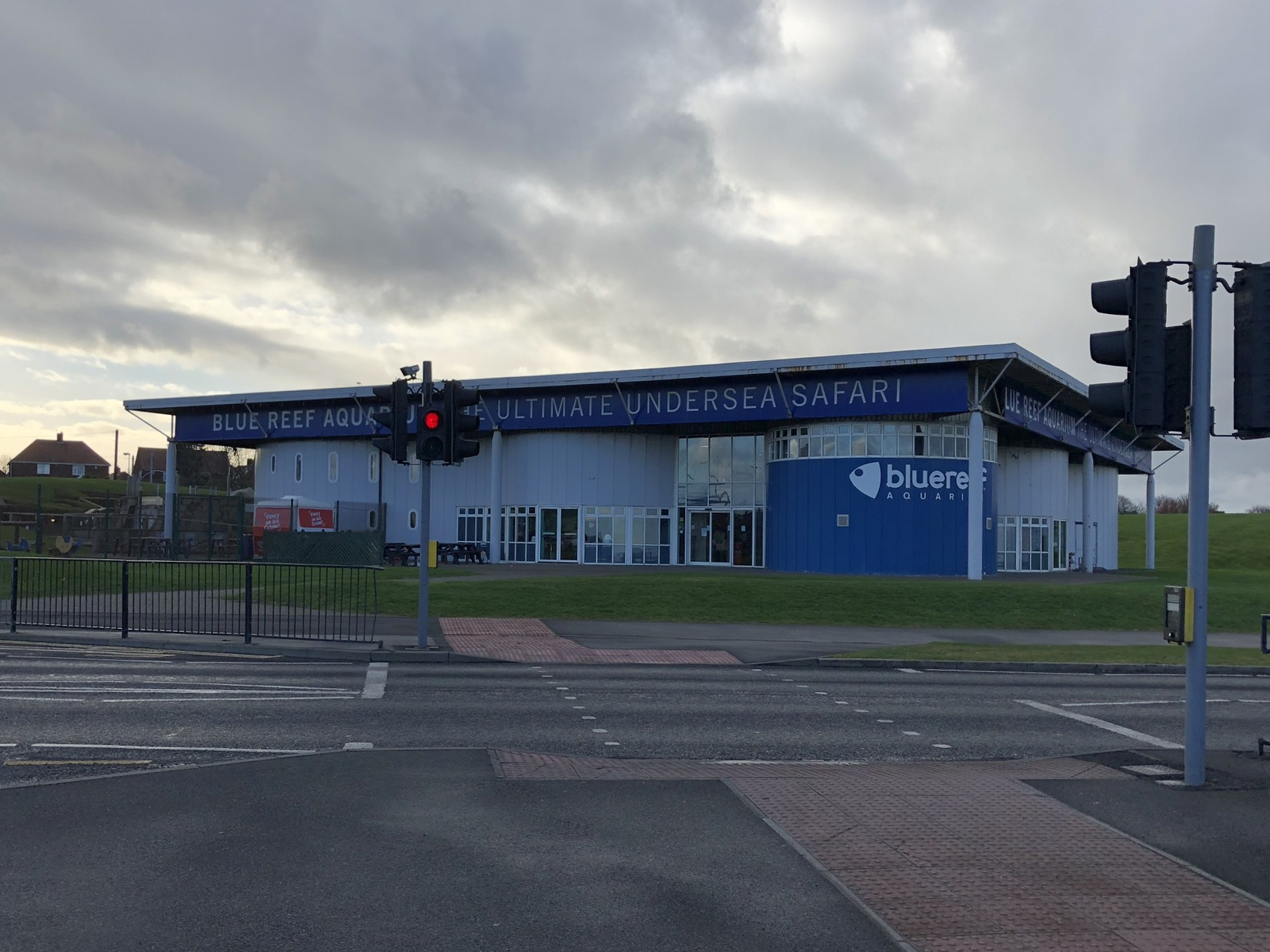 The Blue Reef Aquarium building in Tynemouth.